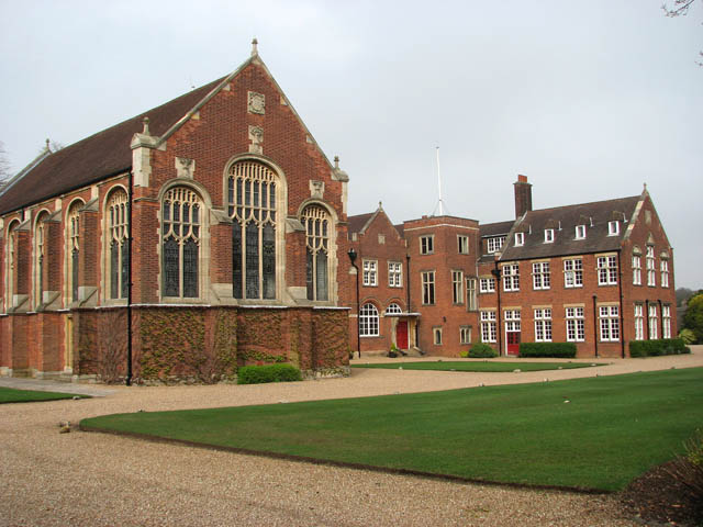 Gresham's Senior Prep